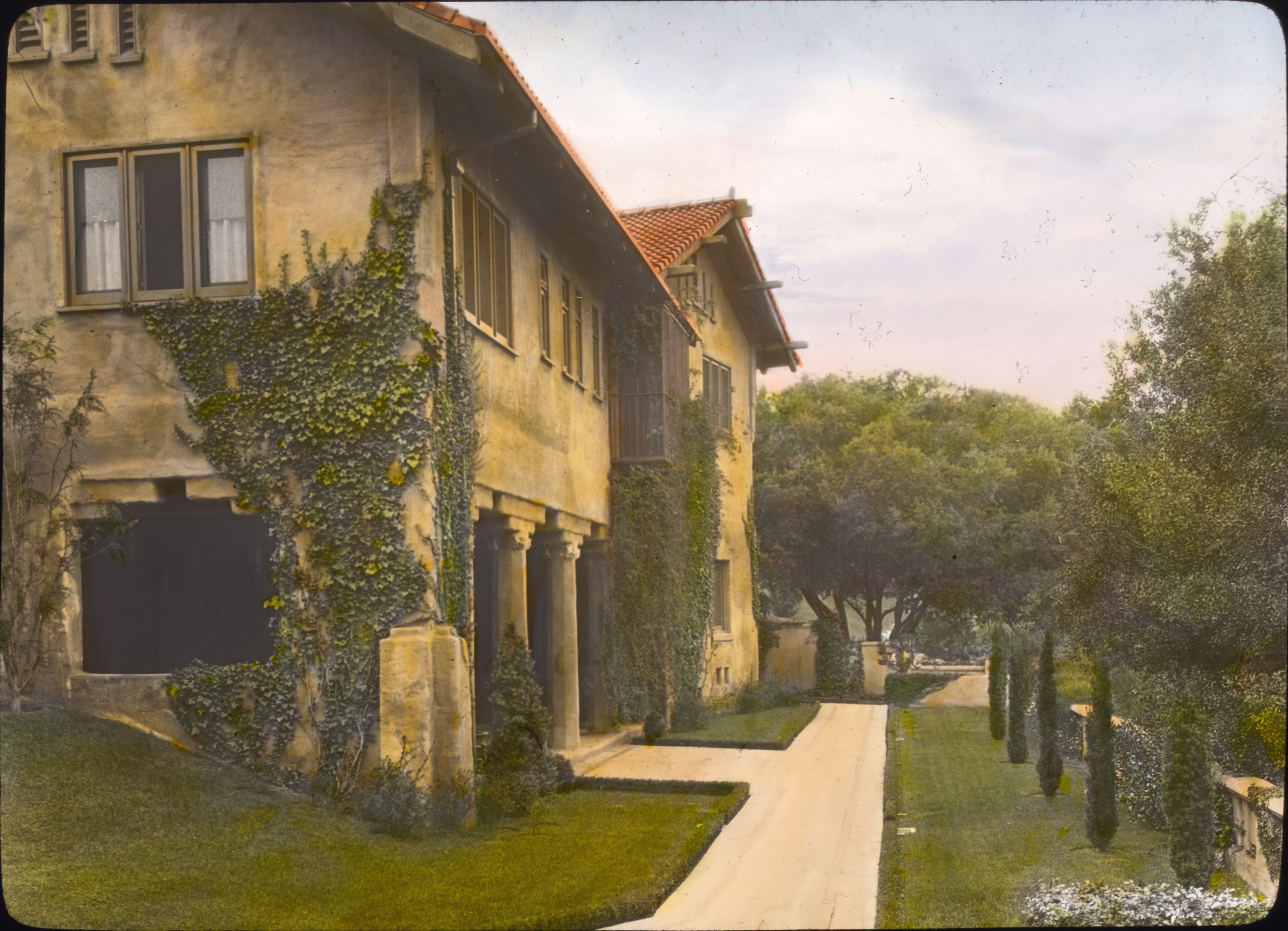 Il Paradiso, or Mrs. Dudley Peter Allen House,or Cordelia A. Culbertson House. 1188 Hillcrest Avenue, Oak Knoll, Pasadena, California. Photographed by Frances Benjamin Johnston in spring 1917. From the Library of Congress. Listed on the National Register of Historic Places.